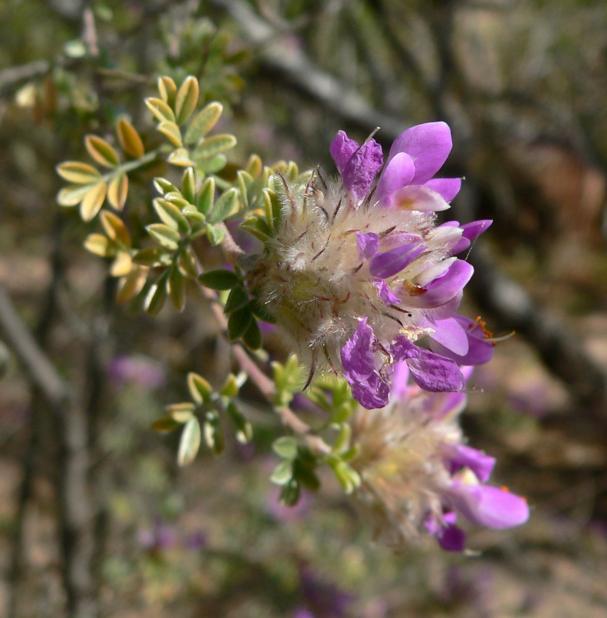 Dalea pulchra at the Springs Preserve garden, Las Vegas, Nevada